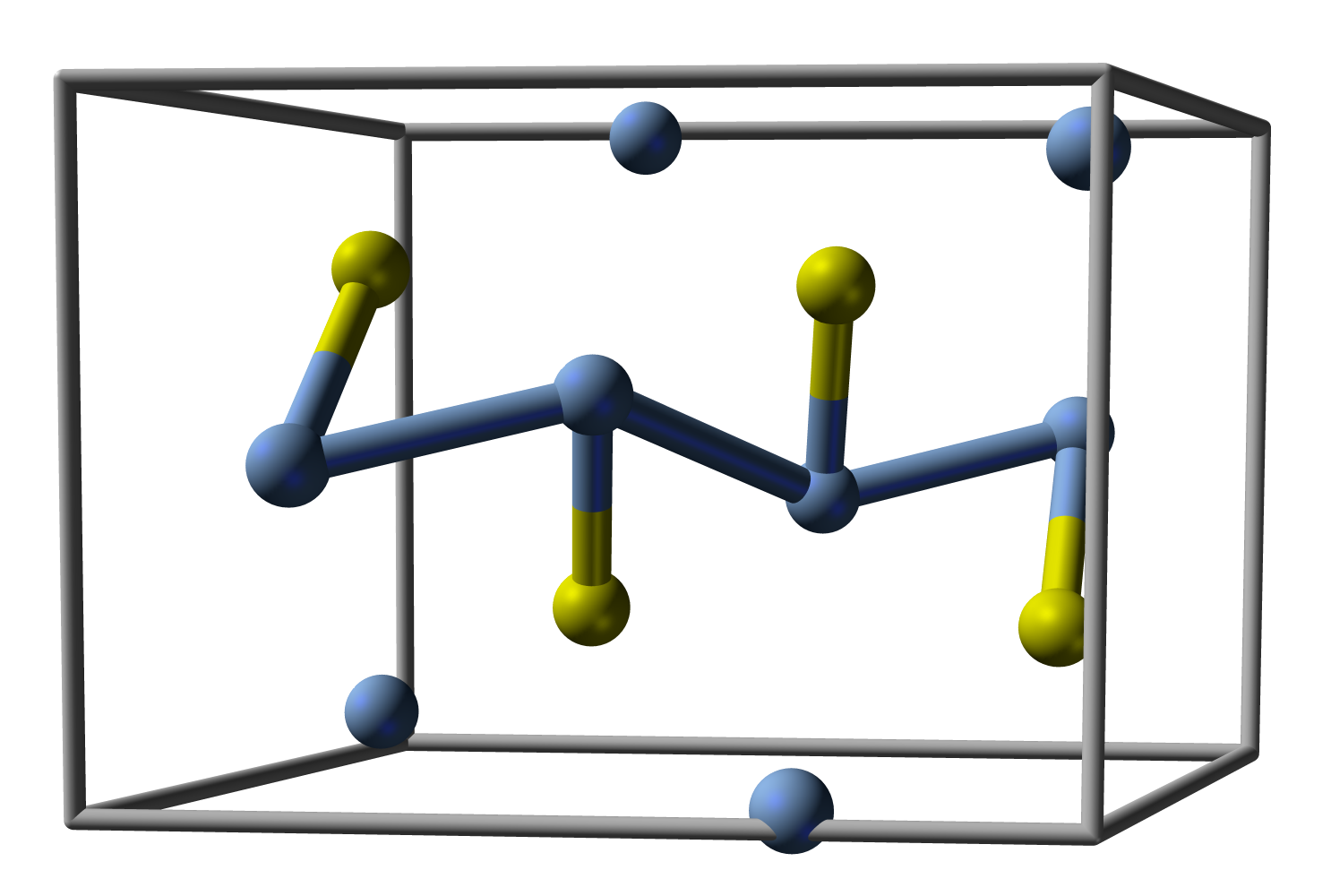 Ball-and-stick model of the unit cell of silver sulfide, Ag2S. X-ray crystallographic data from Mineral J. (1967). 5, 124-143.